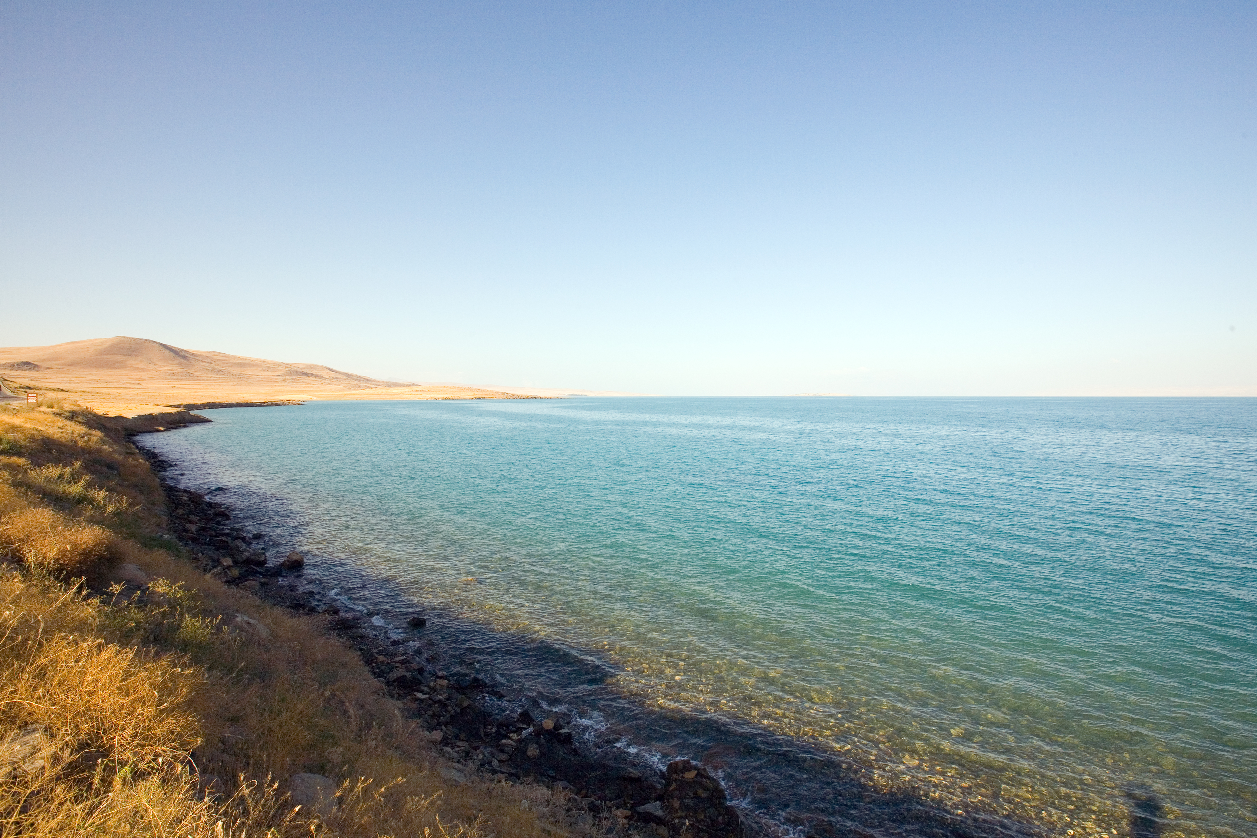 Lake Van from East Coast